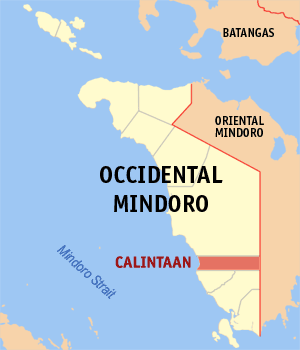 Map of Occidental Mindoro showing the location of Calintaan